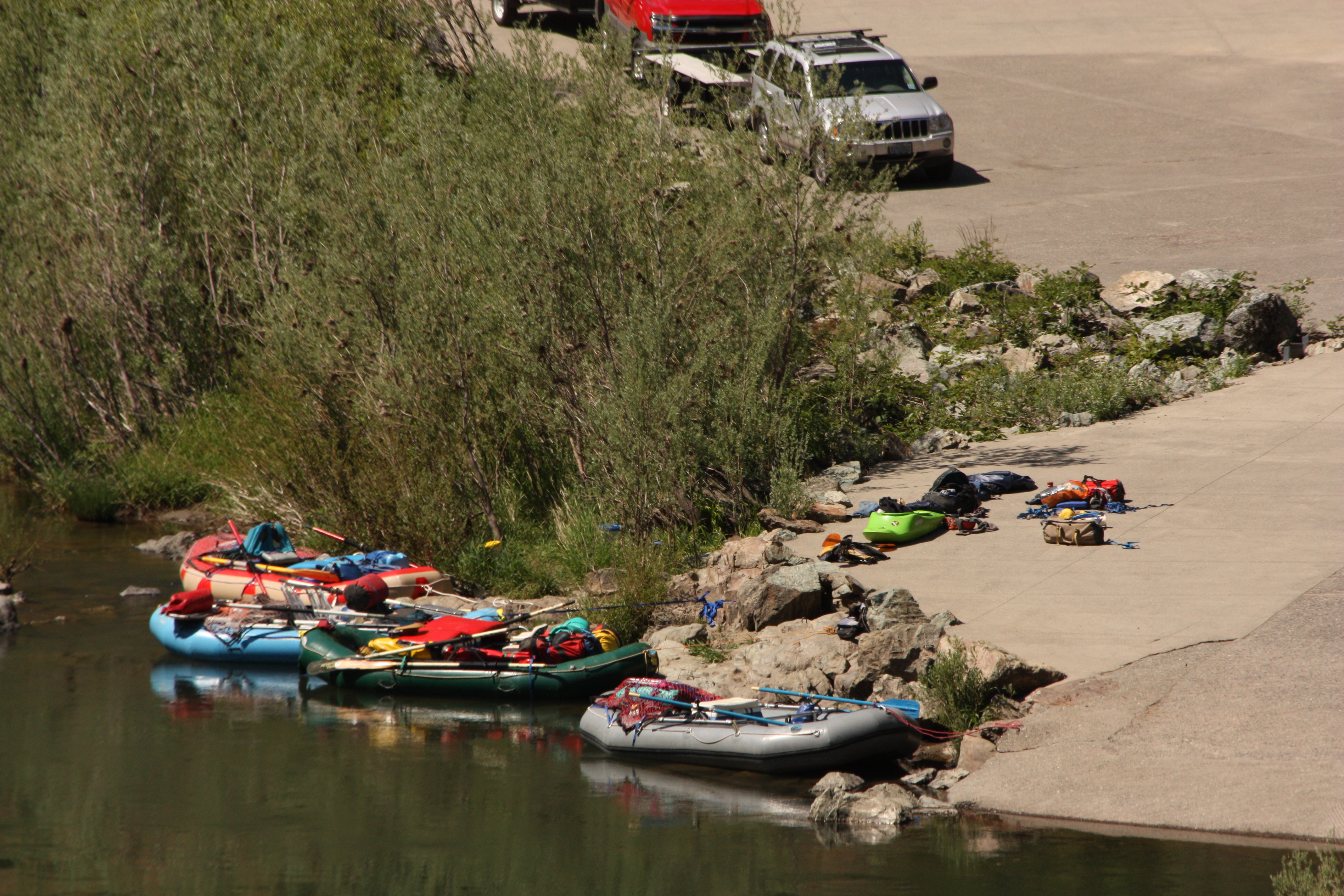 Rafting putting in at Grave Creek, east portion of boat ramp; Rogue River (Oregon) Viewpoint location: Lower Grave Creek Road (BLM 34-8-13) at Grave Creek Bridge Rogue Wild and Scenic River Viewpoint elevation: 218 meter (716 ft) View direction: West-northwest Location source: Garmin GPSmap 60CSx Location Datum: WGS84